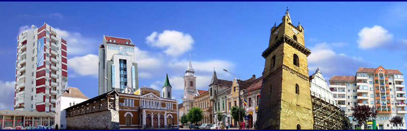 published at